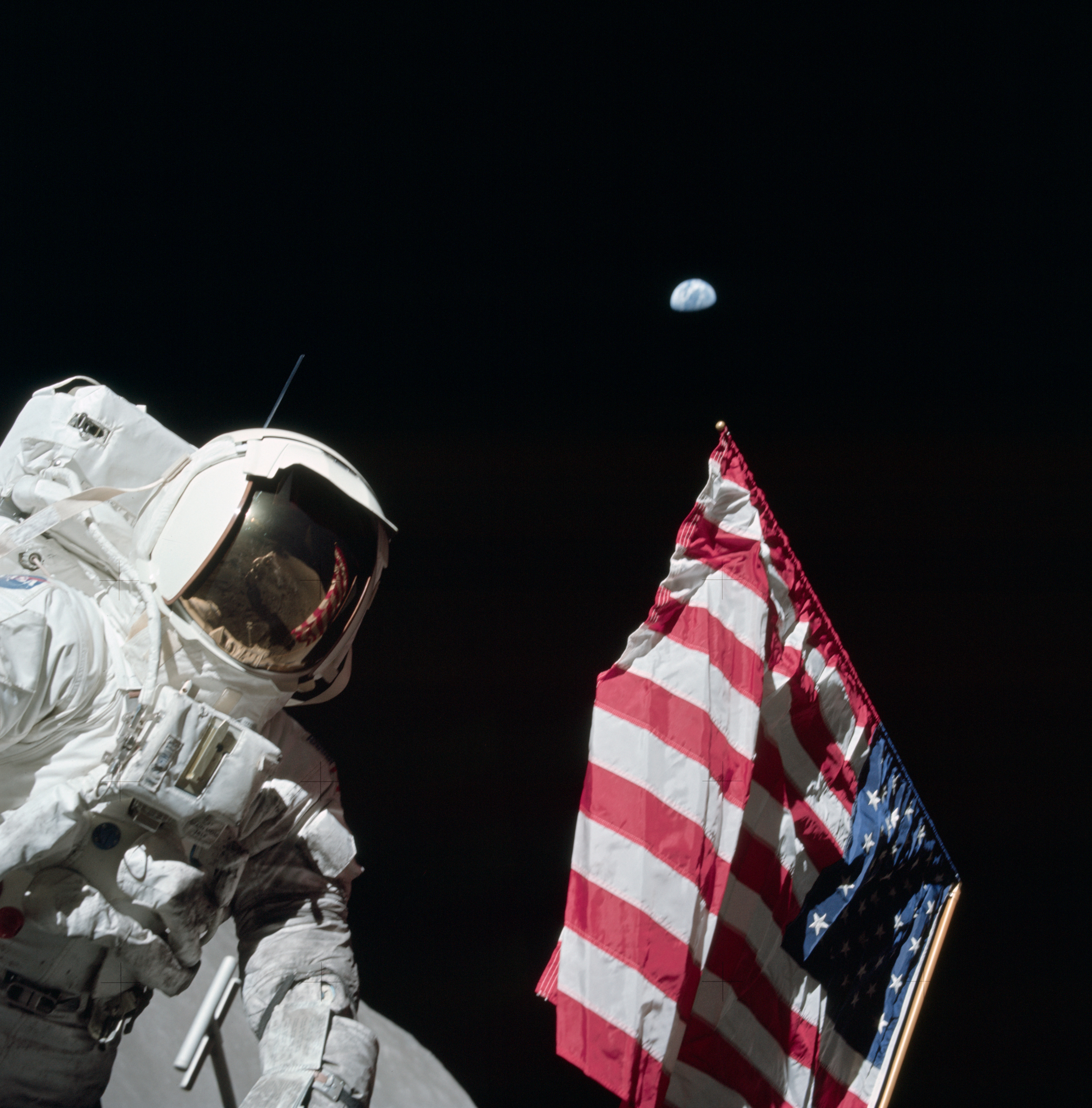 During the first EVA of Apollo 17, Eugene Cernan photographed Harrison Schmitt with the American flag and the Earth (400 000km away) in the background. The chest-mounted RCU and the camera bracket are clearly visible. Cernan is visible in the reflection in Schmitt's helmet visor in the awkward position he assumed to obtain this image